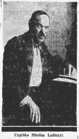 Nicolas Ladany, aka. Nicolau Ladanyi, association football coach of Hungarian origin, then Botafogo FC of Rio de Janeiro, Brasil.